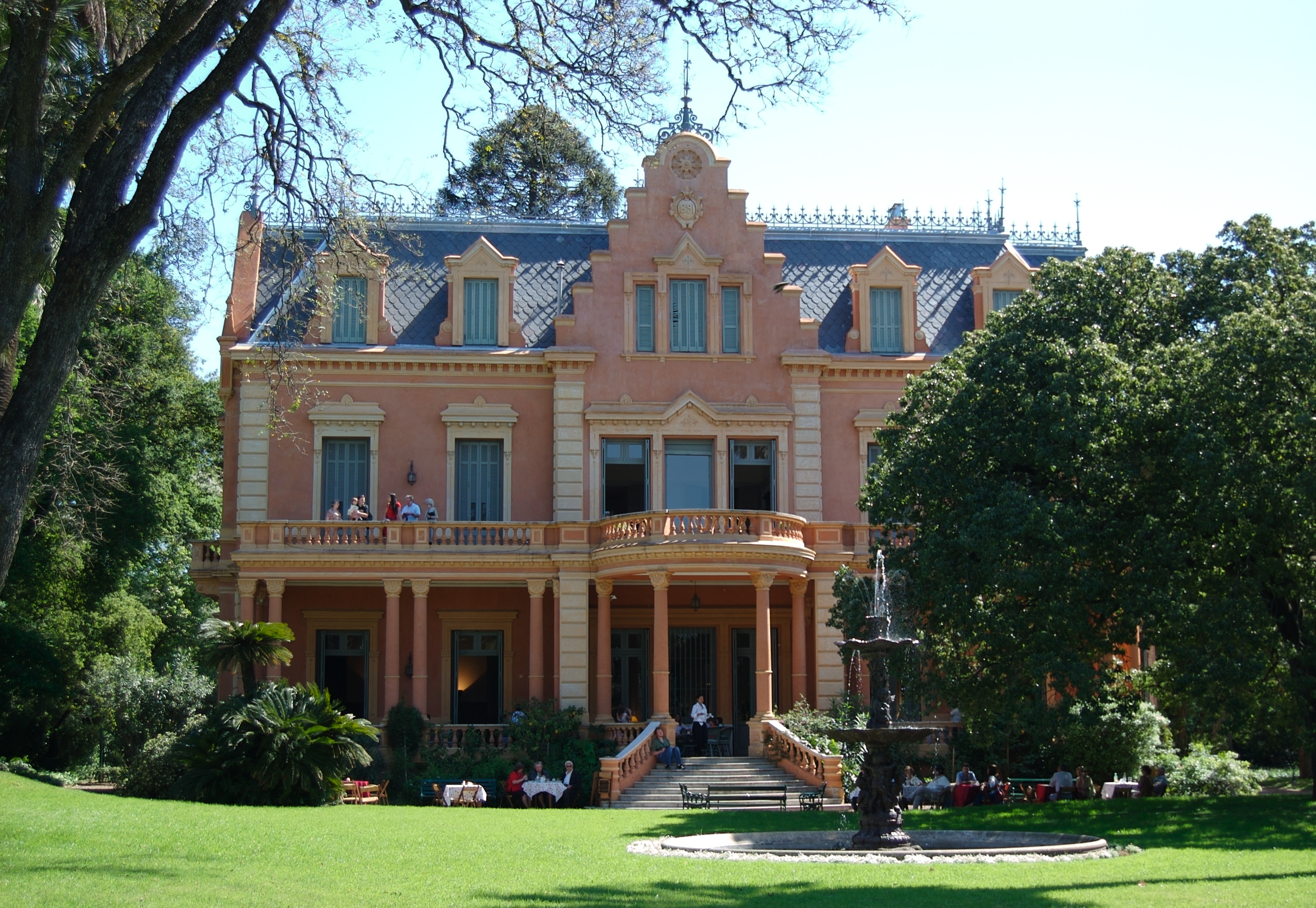 Victoria Ocampo's former residence in San Isidro, Argentina (now a museum and cultural center).